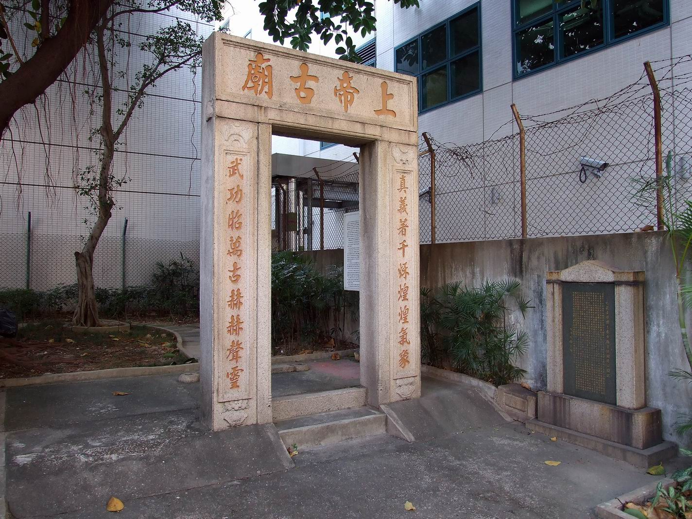 Stone Doorframe of the Old Sheung Tai Temple, Lomond Road